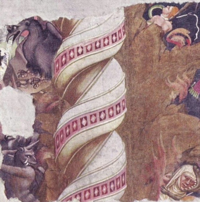 Orcagna, Triumph of Death, Santa Croce, Florence, detail